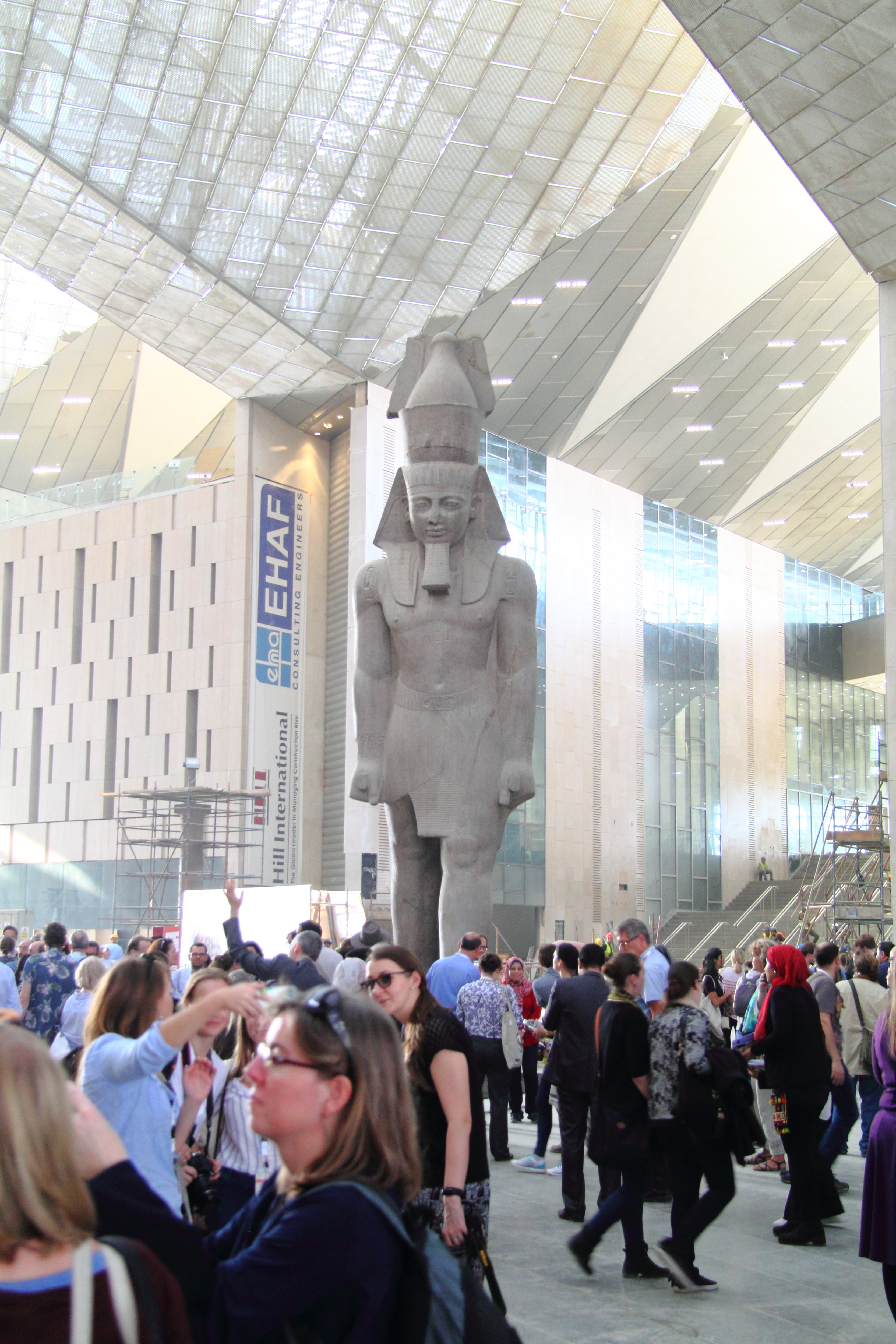 Cairo, Egypt: Grand Egyptian Museum under construction (November 2019) with Statue of Ramesses II in the entrance hall